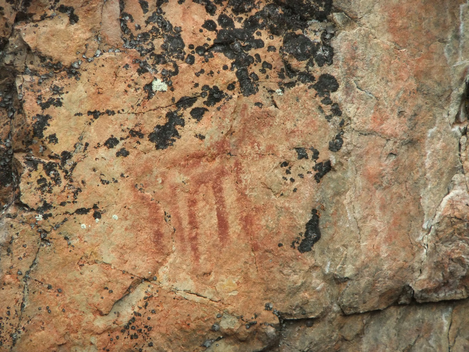 Mythological animal with five legs depicted in Värikallio Stone Age rock painting in Suomussalmi, Finland.